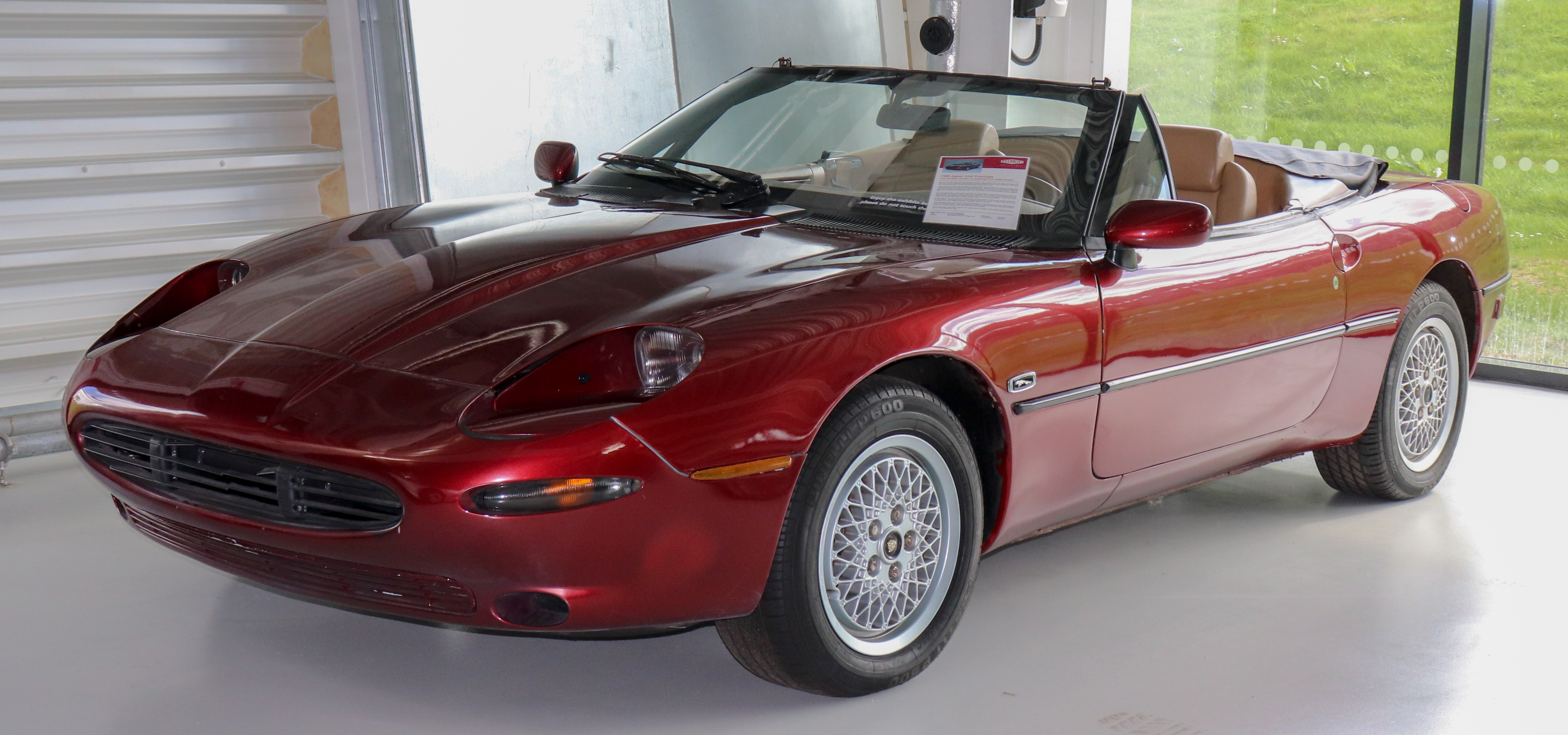 1988 Jaguar XJ42 Prototype Taken at the British Motor Museum, Gaydon